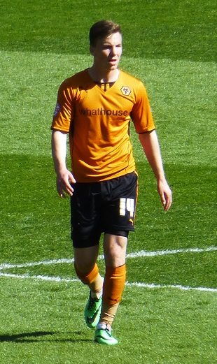 Evans during Wolves vs Rotherham (18.04.2014)